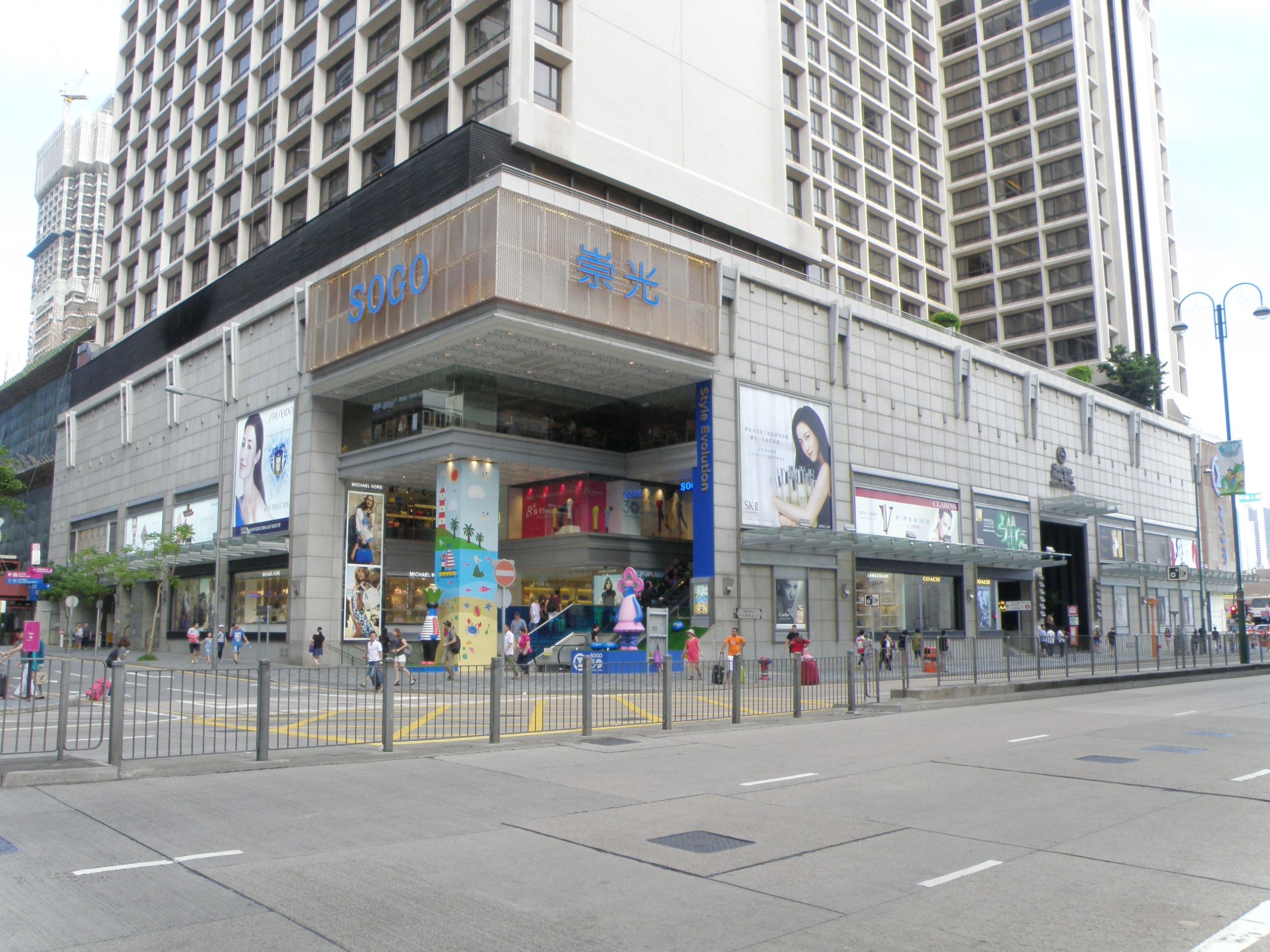 Sogo in Tsim Sha Tsui, Hong Kong.